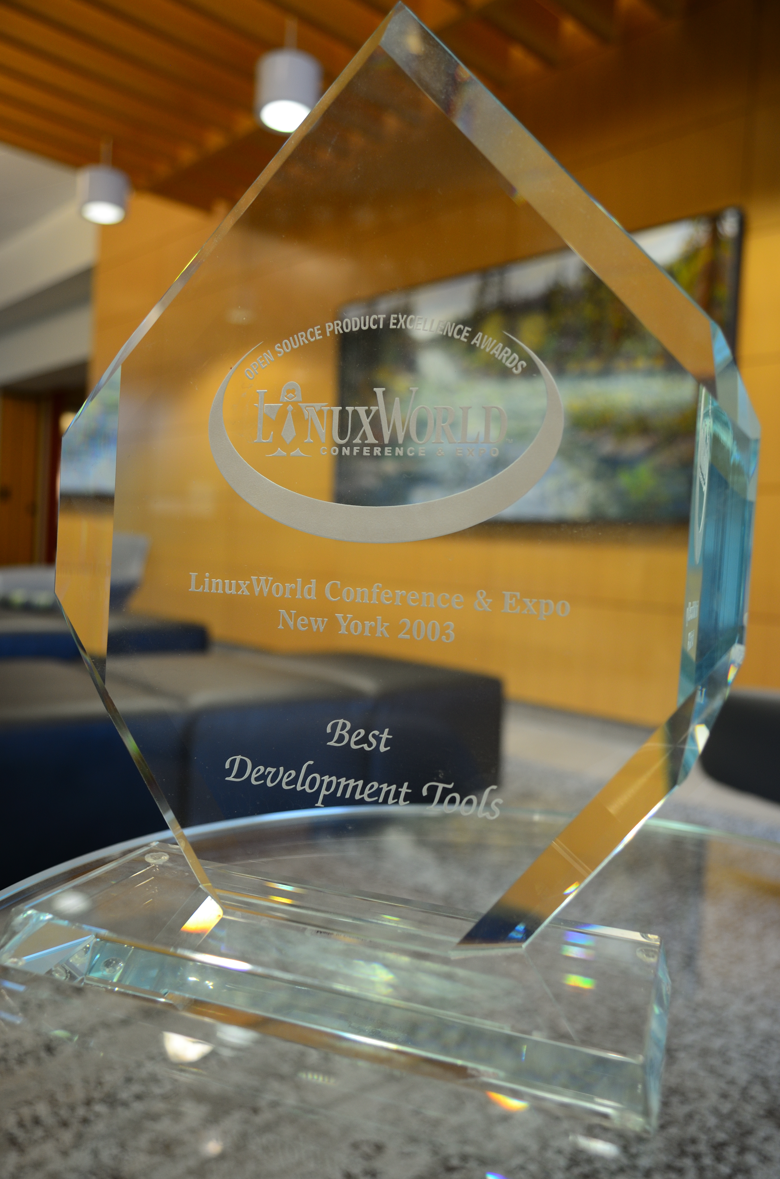 LinuxWorld Conference & Expo Product Excellence Award - Best Developer Tools: IBM - Websphere Studio Appl. Developer V.5